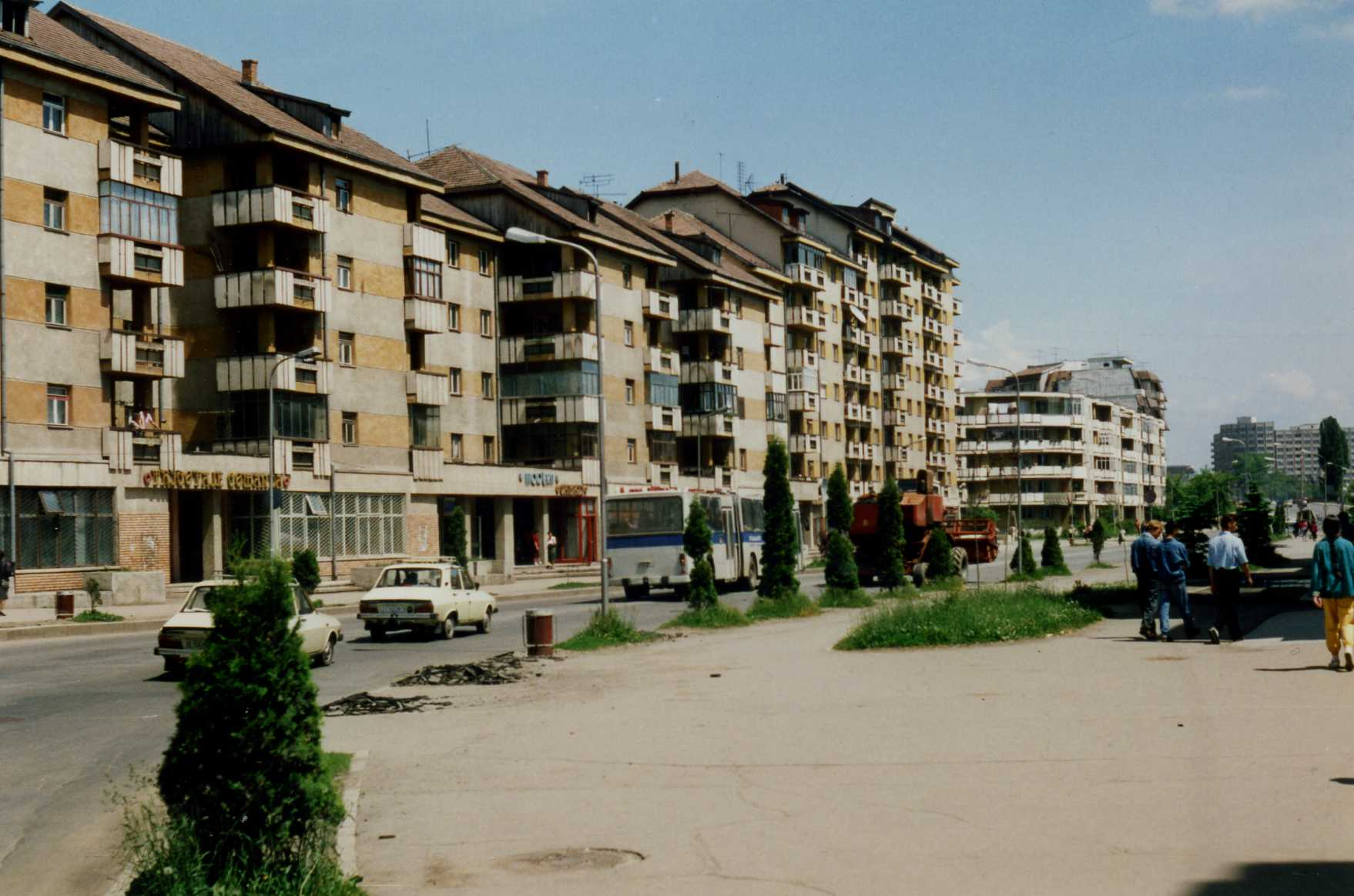 Street in Sfântu Gheorghe, 1994